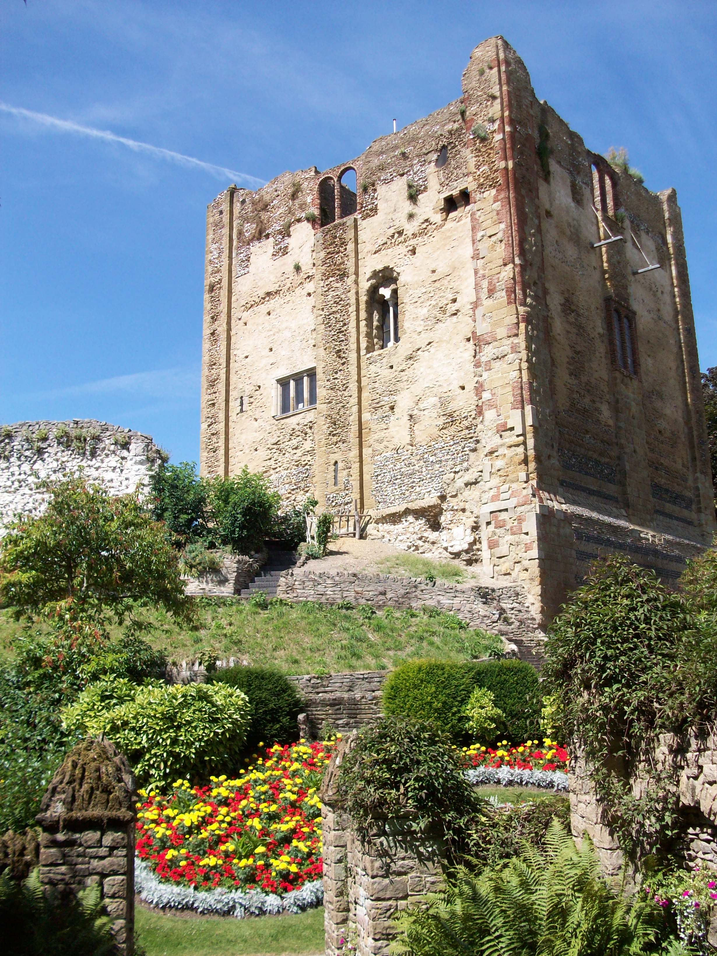 Tower from Guildford's castle.